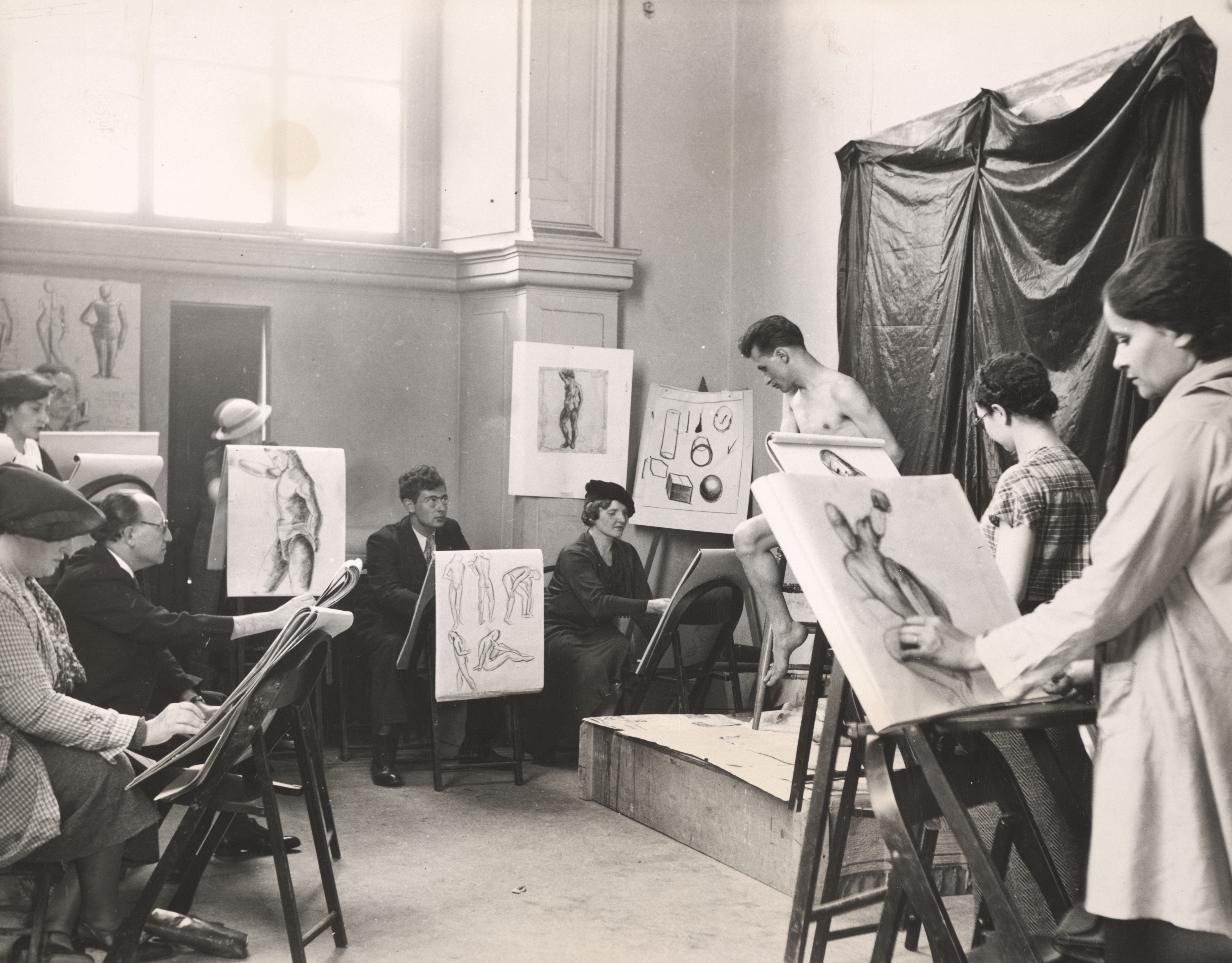 (null)